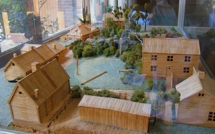 A match model of The Gathenhielm reserve in Göteborg, Sweden